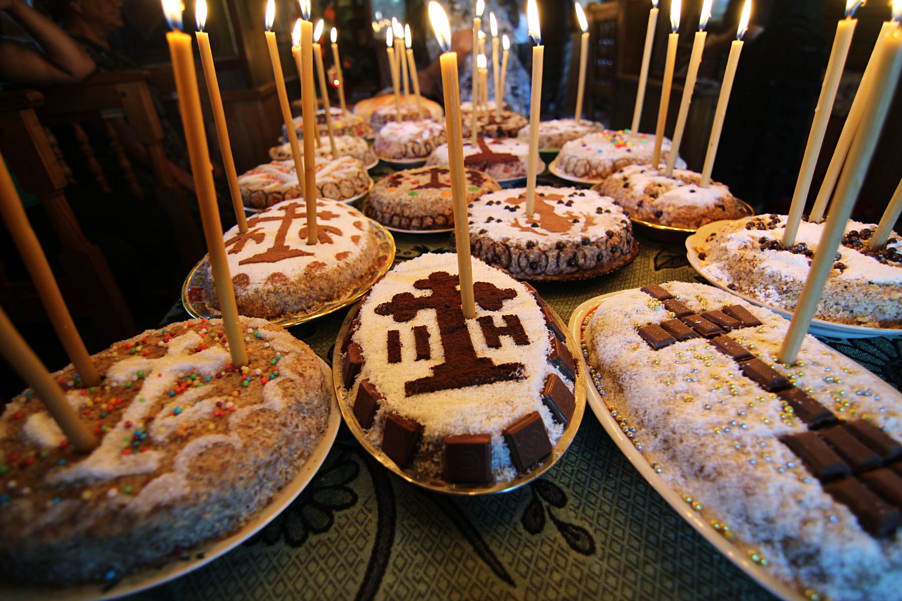 Romanian coliva used as part of a religious ceremony at a Christian Orthodox church